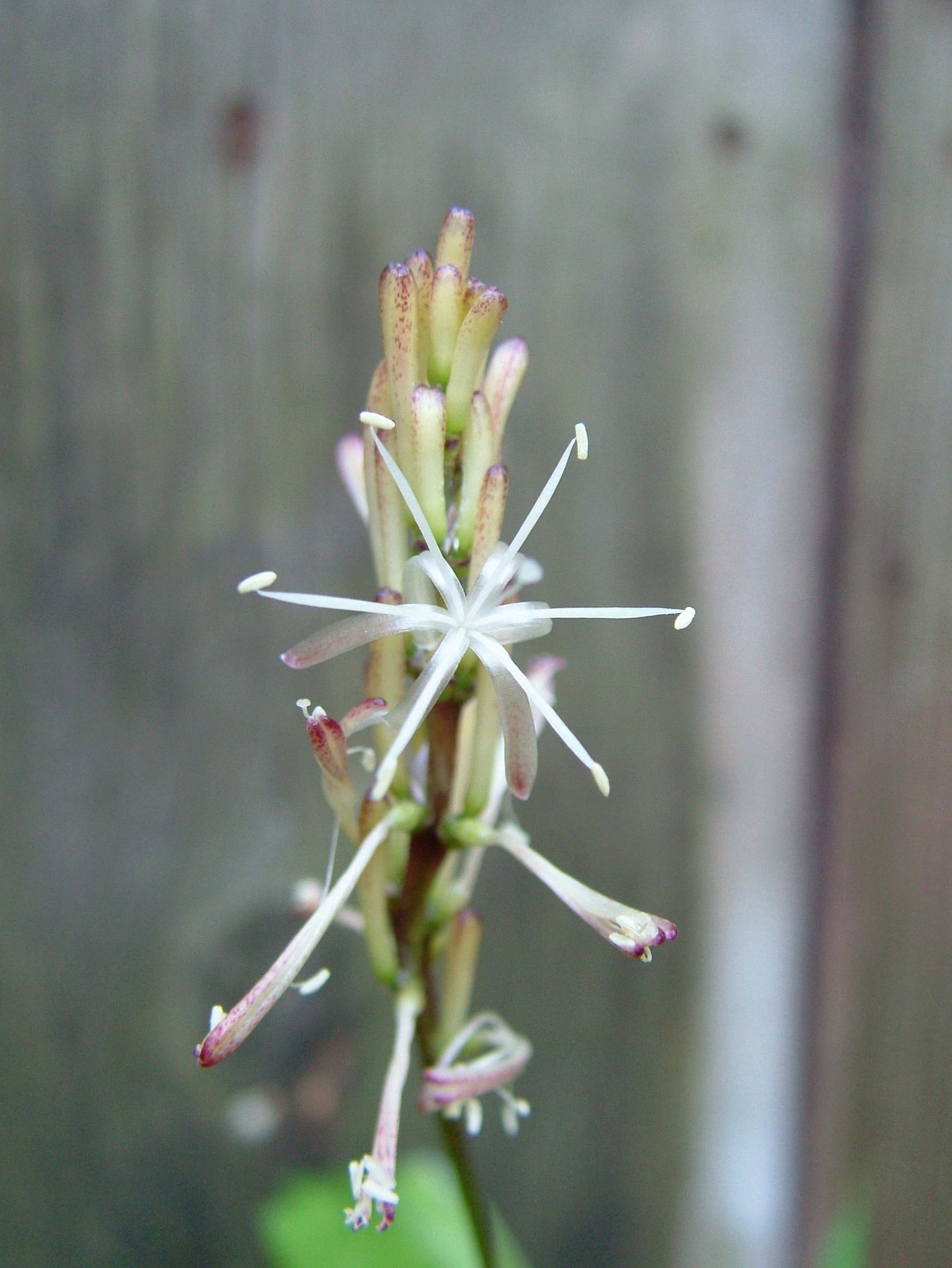 ex TD 311 collected in coastal area near Libreville, Gabon